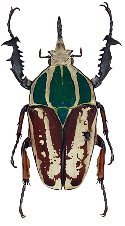 Mecynorhina ugandensis var. 10